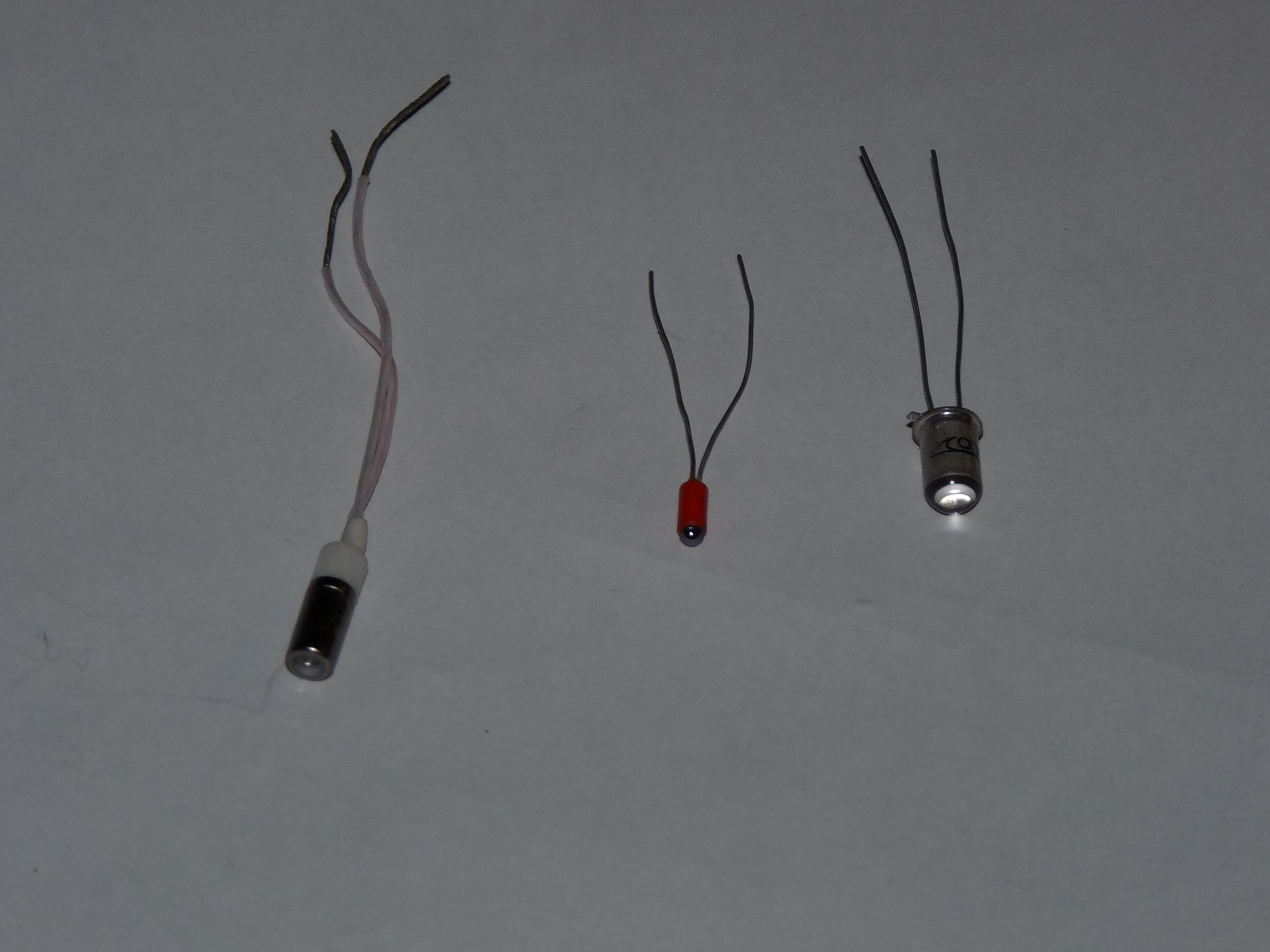 USSR photodiodes